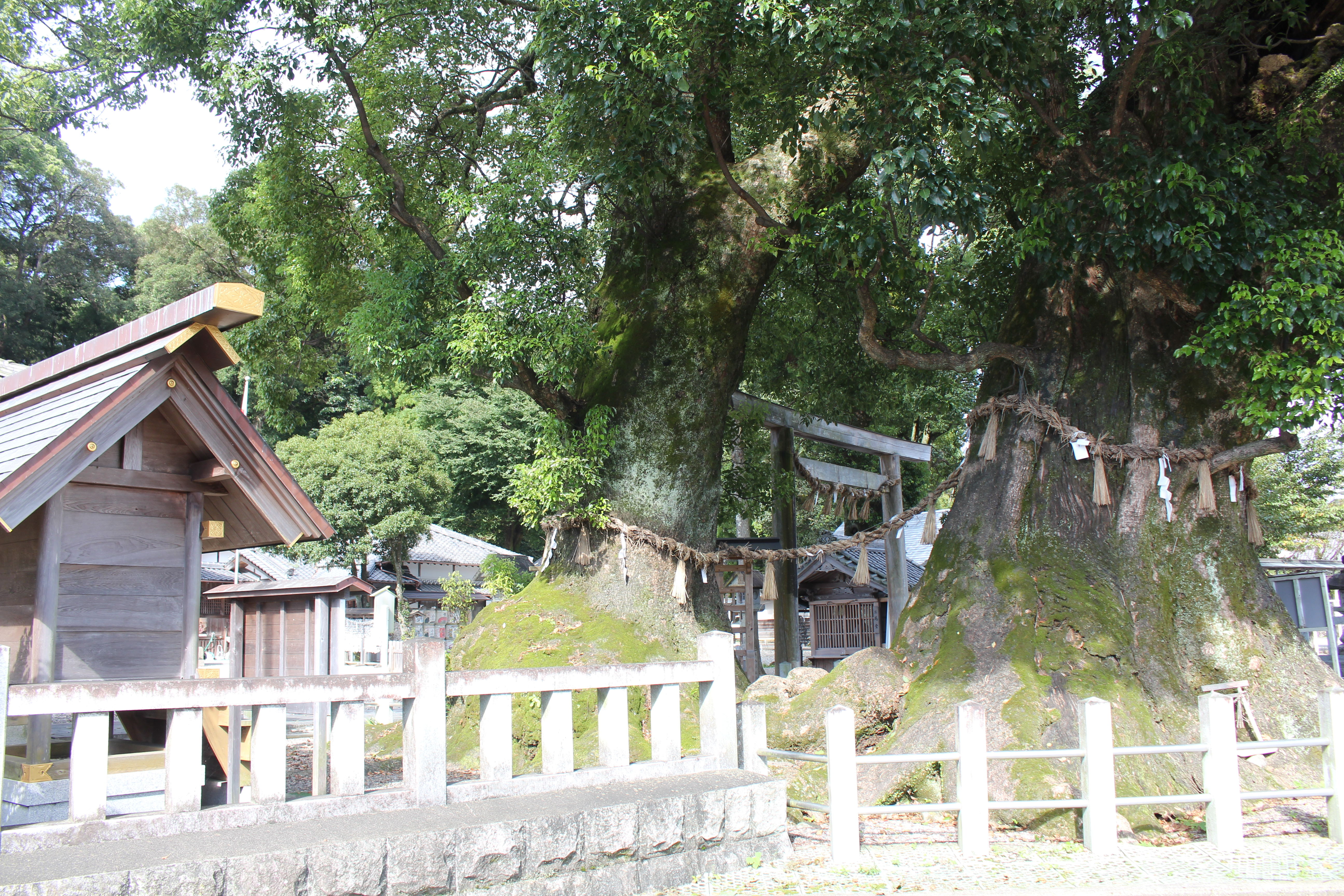 Cinnamomum camphora, in Owase-jinja, Owase, Mie prefecture, Japan.